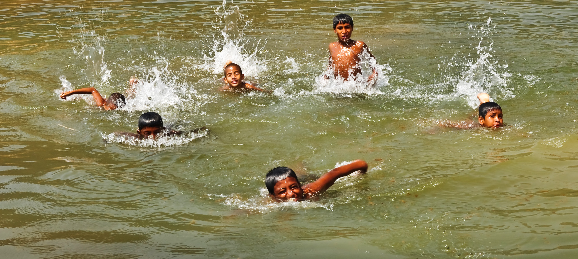 Childhood swimming by Bangladeshi children